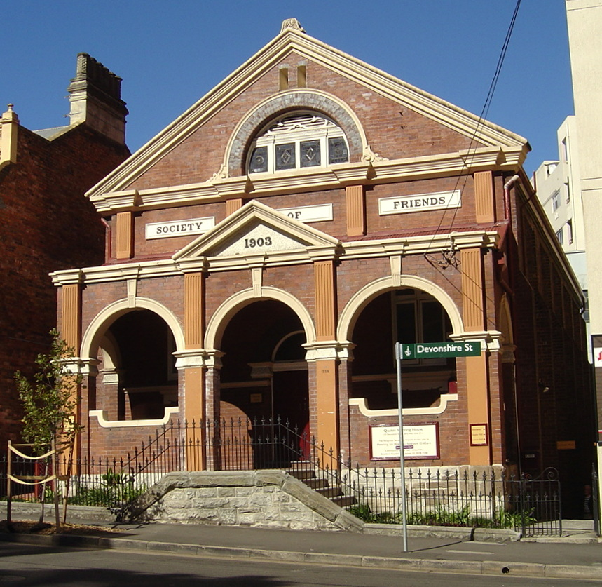 Friends' Meeting House, Surry Hills, Sydney, Ausralia